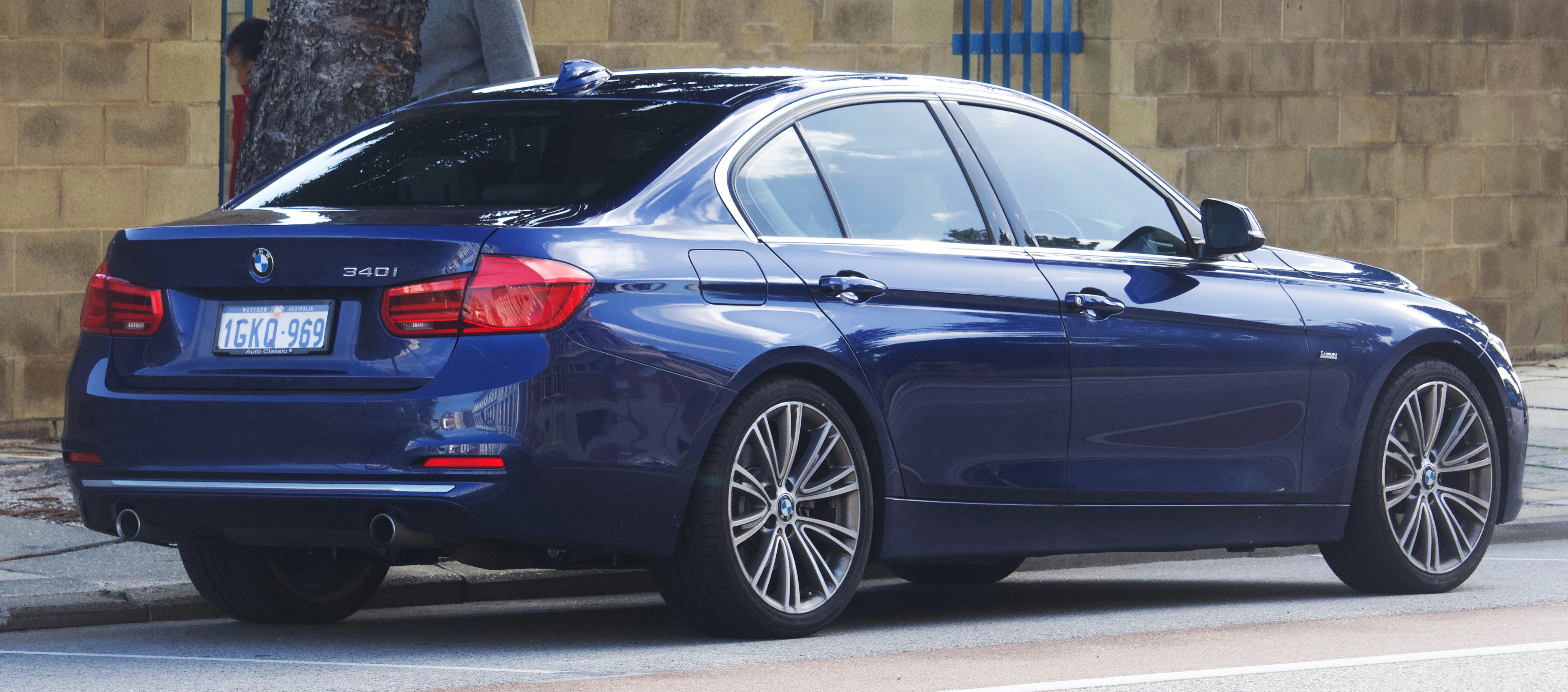 2017 BMW 340i (F30 LCI) Luxury Line sedan. Photographed in Fremantle, Western Australia, Australia. Note: I took this photo of the exact same car back in February. Its always in Fremantle. I believe someone may be living in one of the apartments.